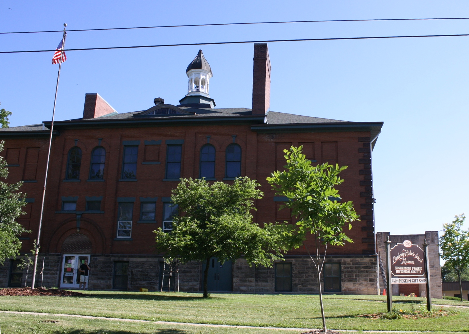 The historic Cambridge Wisconsin Public School and High School in Cambridge, Wisconsin. It is listing on the National Register of Historic Places.